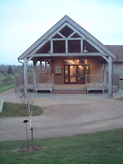 The Far East Prisoners of War Memorial Building, National Memorial Arboretum The Far East Prisoners of War Memorial Building at the National Memorial Arboretum is a building that was officially opened on the 15th August 2005, the 60th anniversary of the end of the War in South East Asia. Which is better known as V.J. Day (Victory over Japan). Just to the left of the photograph is a block with a moulded bronze plaque depicting Changi Jail which held prisoners of the Japanese Military. The people held at the Changi Jail were both Military and Civilian. The block that the plaque is attached to came from the original jail wall.